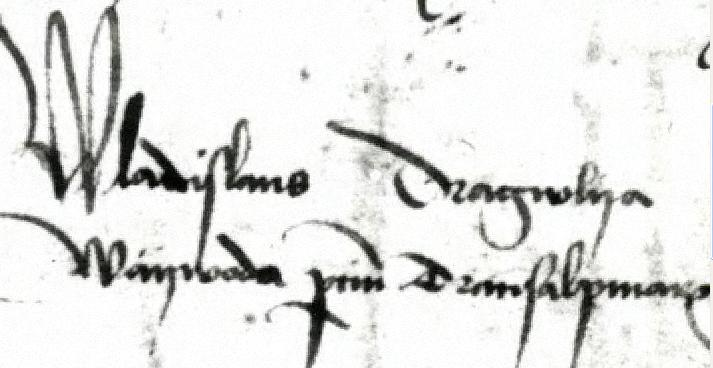 Vlad Dracula's signature; Arhivele Statului Sibiu, Arhivele Naţionale Săseşti, Urkunden U 454 / 3 32